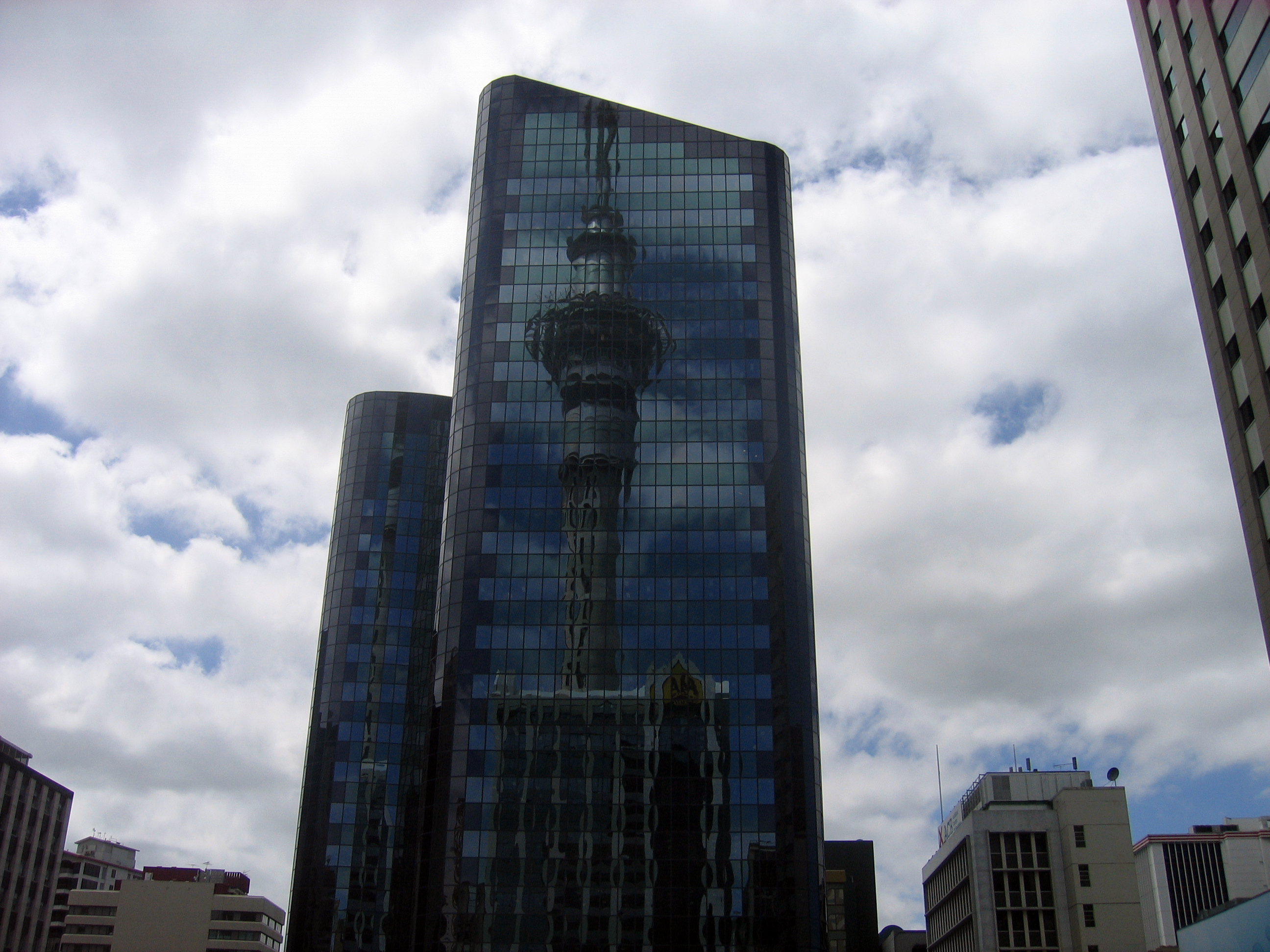 Auckland Skyline, Sky Tower reflecting in the façade of the National Bank Tower, corner Queen / Victoria Streets